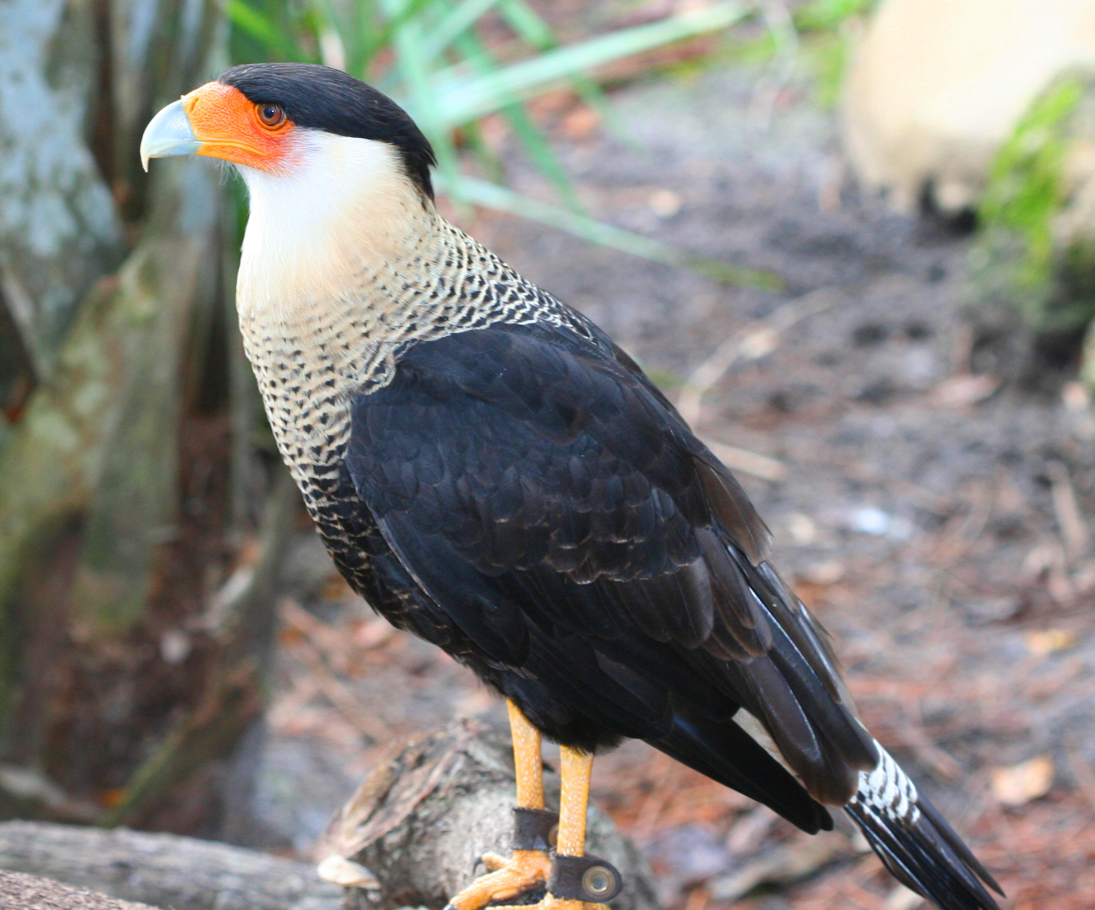 Northern Caracara (also called Northern Crested Caracara) at Brevard Zoo, Florida, USA.